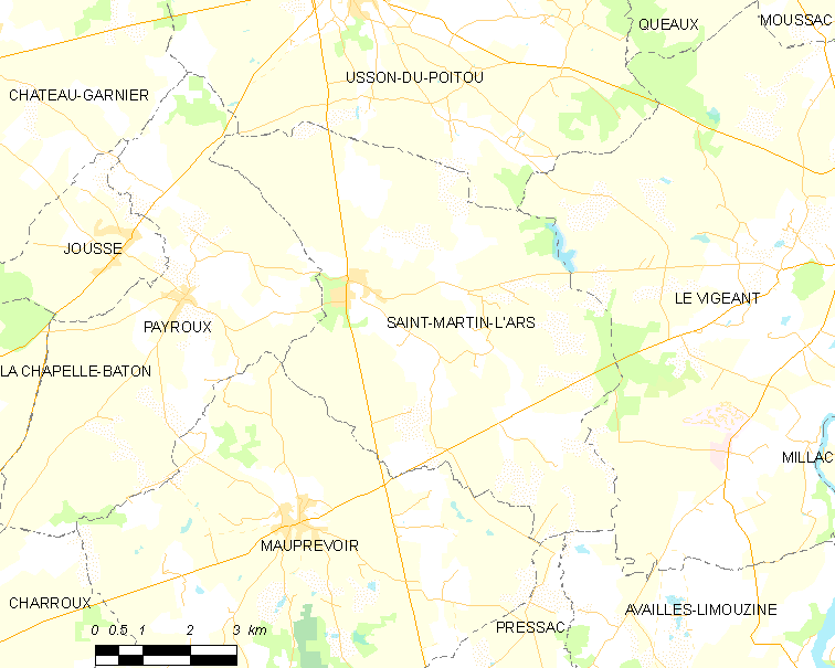 Map of French municipality Saint-Martin-l'Ars